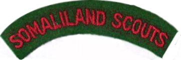 British Somaliland Scouts